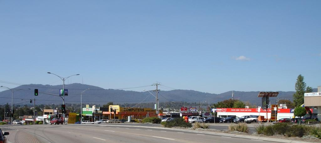 Image of Bayswater Vic taken by HelloMojo